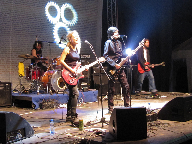 IMG_027 - EXIT10 - E-Play